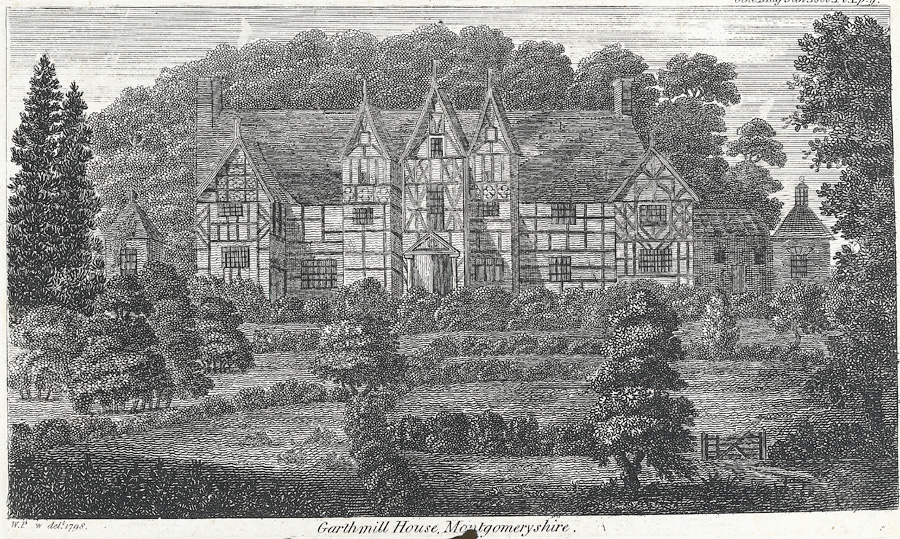 A view of Garthmill House.